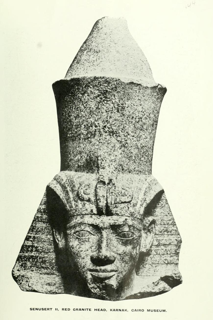 Head from a statue of pharaoh Senusret II. Red Granite, from Karnak, 12th dynasty, Middle Kingdom, now at the Cairo Museum.